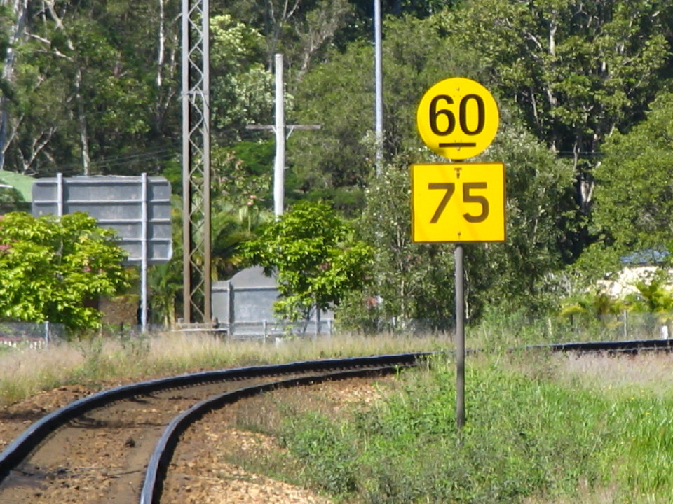 A speed board to show train speed limits on the QR rail network in Queensland, Australia. The square/boxed limit is for Tilt Trains; the higher limit is because the Tilt Trains are capable of traveling through curved sections of track at faster speeds while maintaining passenger comfort.